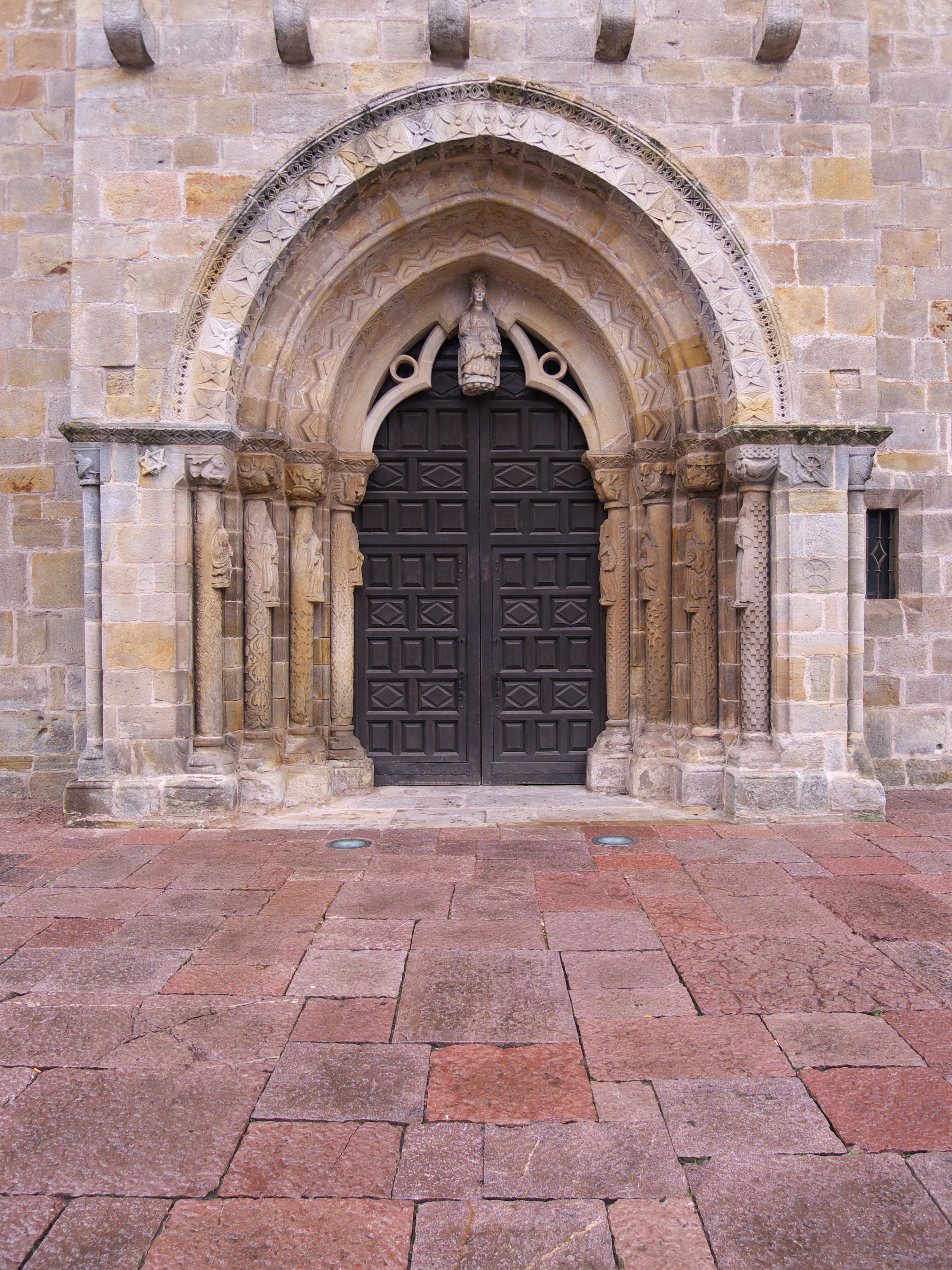 13th century sculptured and archivolted Gothic church portal — of the Gothic Church of Santa María de la Oliva. Completed in the 1270s, the Gothic era church is located in Villaviciosa of Asturias province, Spain.